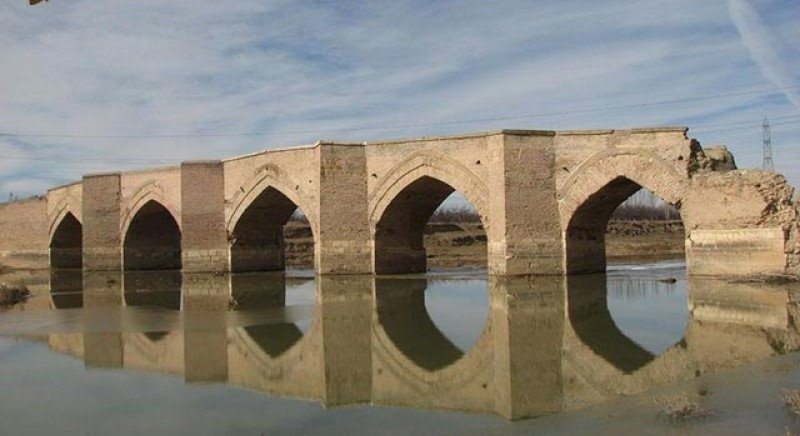 پل تاریخی میرزا رسول واقع در میاندوآب - دوره قاجار